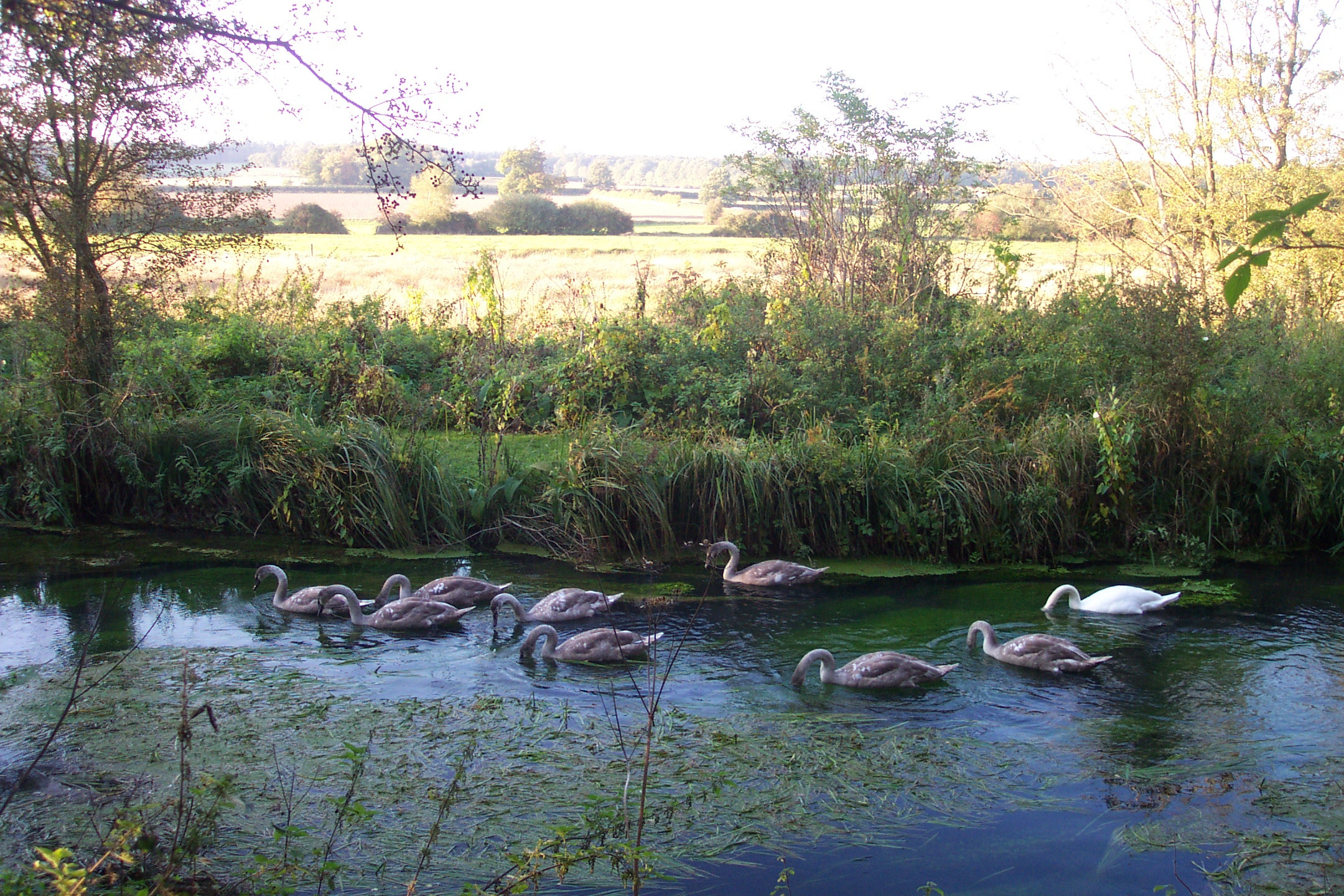 A family of mute swans comprising one adult and eight juveniles; the other adult is present but out of shot. Taken on the River Pang near Bradfield College in Berkshire, England. For more information, see the Wikipedia articles Mute Swan and River Pang.